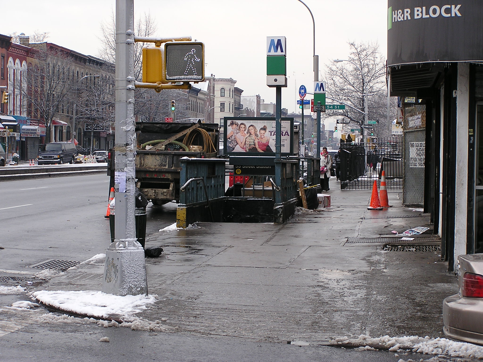 w:53rd Street (BMT Fourth Avenue Line) entrance